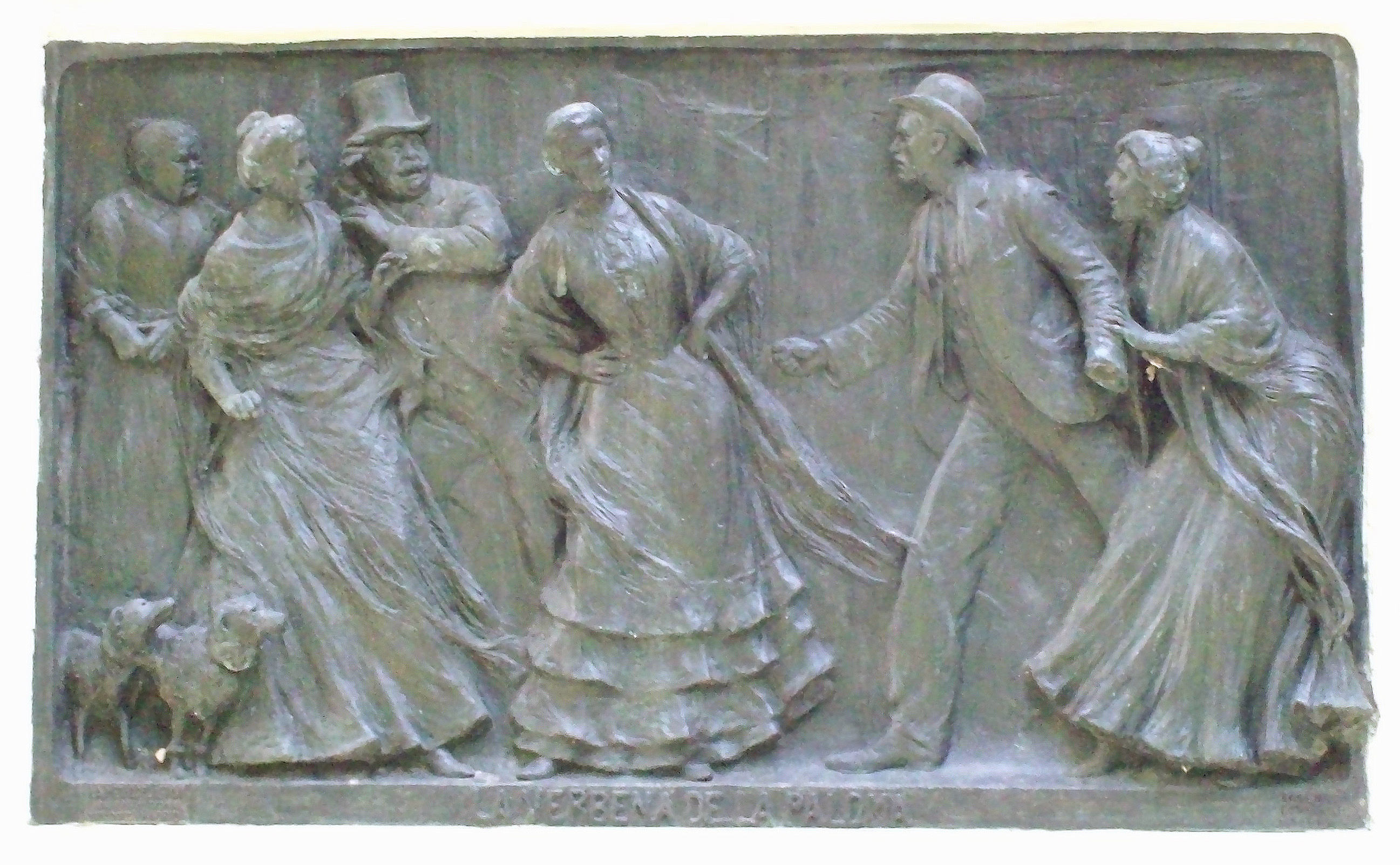 Bronze relief representing the zarzuela La verbena de la Paloma. Detail of the Monument to the Madrilenian Sainete Writers in Madrid (Spain).